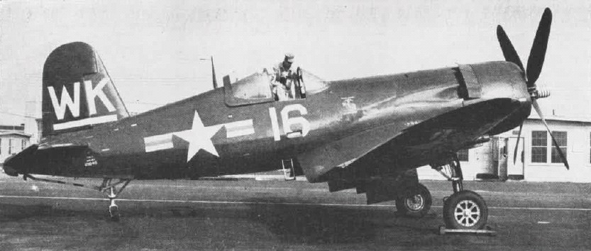 A newly delivered Vought F4U-5 Corsair of Marine fighter squadron VMF-224 at Marine Corps Air Station Cherry Point, North Carolina (USA), in 1948. A Lt. Emil Zanutto is standing on the plane.